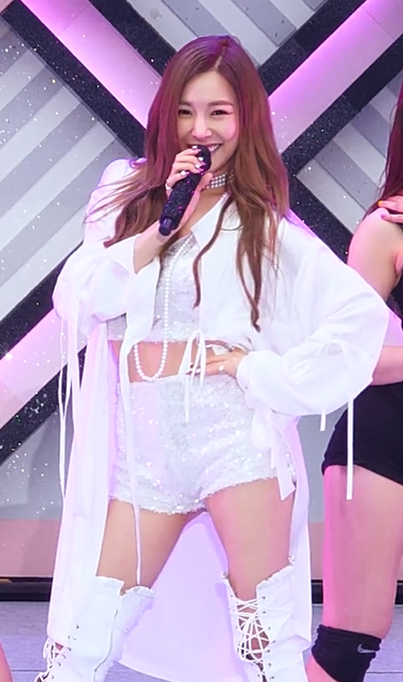 Tiffany Hwang performing "I Just Wanna Dance" at SMTown Live World Tour VI on July 8, 2017.